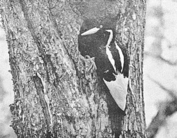 Female Ivory-Bill returning to nest. Photo taken in Singer Tract, Louisiana by Arthur A. Allen (April 1935). From Recent observations of the Ivory-Billed Woodpecker (Auk) Volume 54, Number 2, April, 1937.